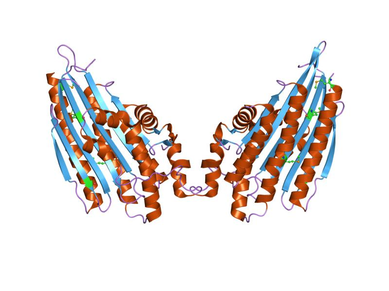 Cartoon representation of the molecular structure of protein registered with 1vju code.